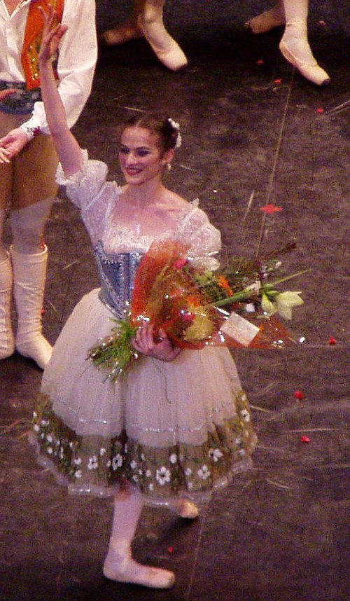 Elena Glurdjidze as Swanildain in the ENB's production of Coppelia. Southampton's Mayflower Theatre.